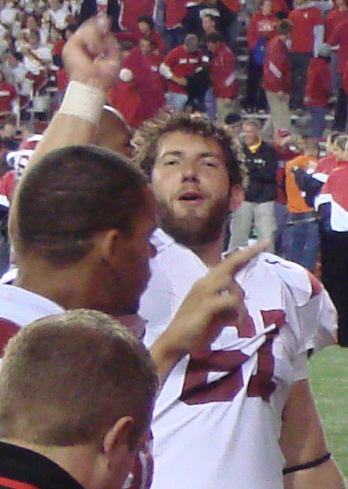 Center Kristofer O'Dowd celebrates a USC victory over Nebraska.